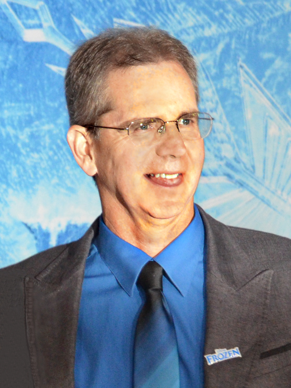 Co-Director Chris Buck at the world premiere for Disney's Frozen at the El Capitan Theatre on November 19, 2013.